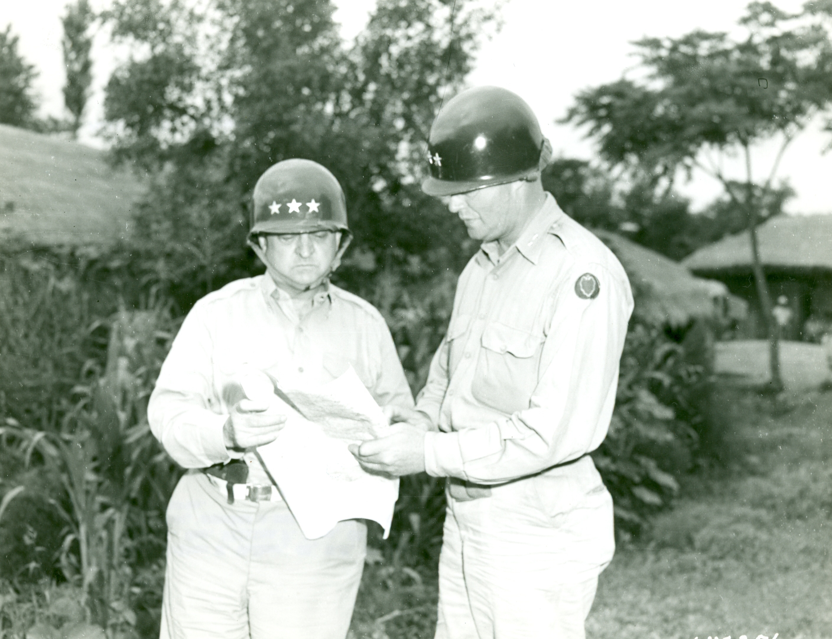 Lt. General Walton H. Walker, Commander, U.S. Eighth Army (left), and Major General William F. Dean, Commander, 24th Infantry Division, examine a map near the front lines somewhere in Korea.